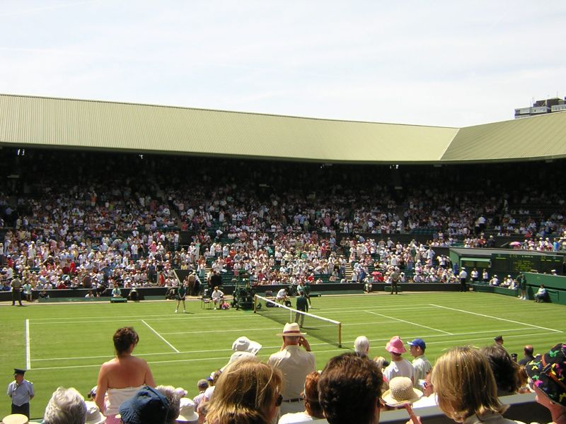 One of the world's premier sporting arena's, Centre Court glimmers in the afternoon summer sunshine.